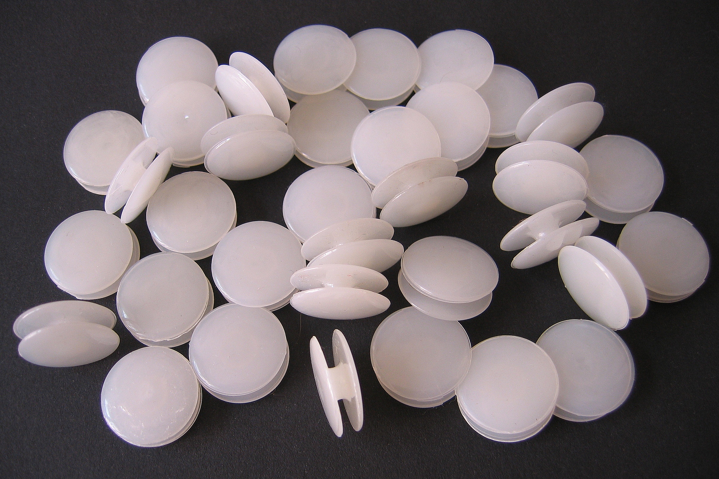 Push-through buttons for bedclothes